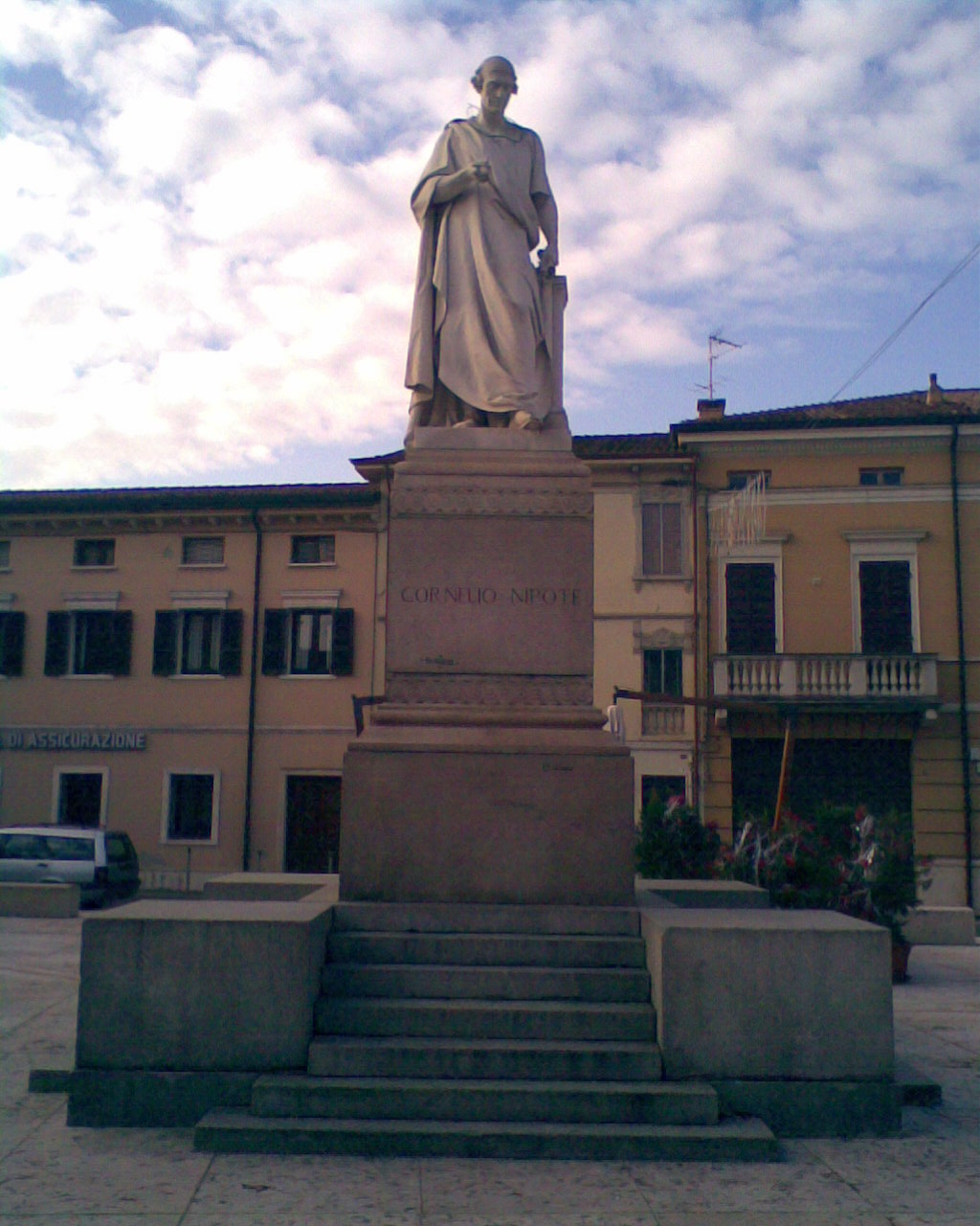 Ostiglia, Italia, Piazza Cornelio